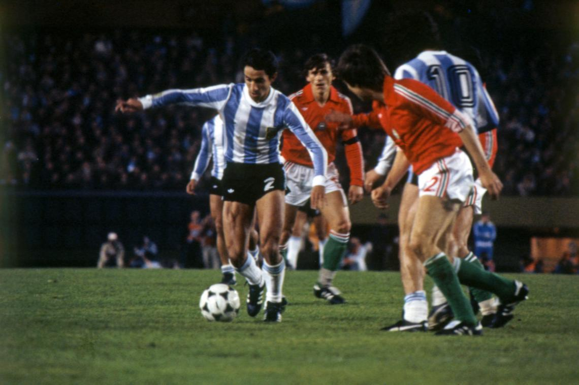 Osvaldo Ardiles (2) carrying the ball vs Hungary at the World Cup